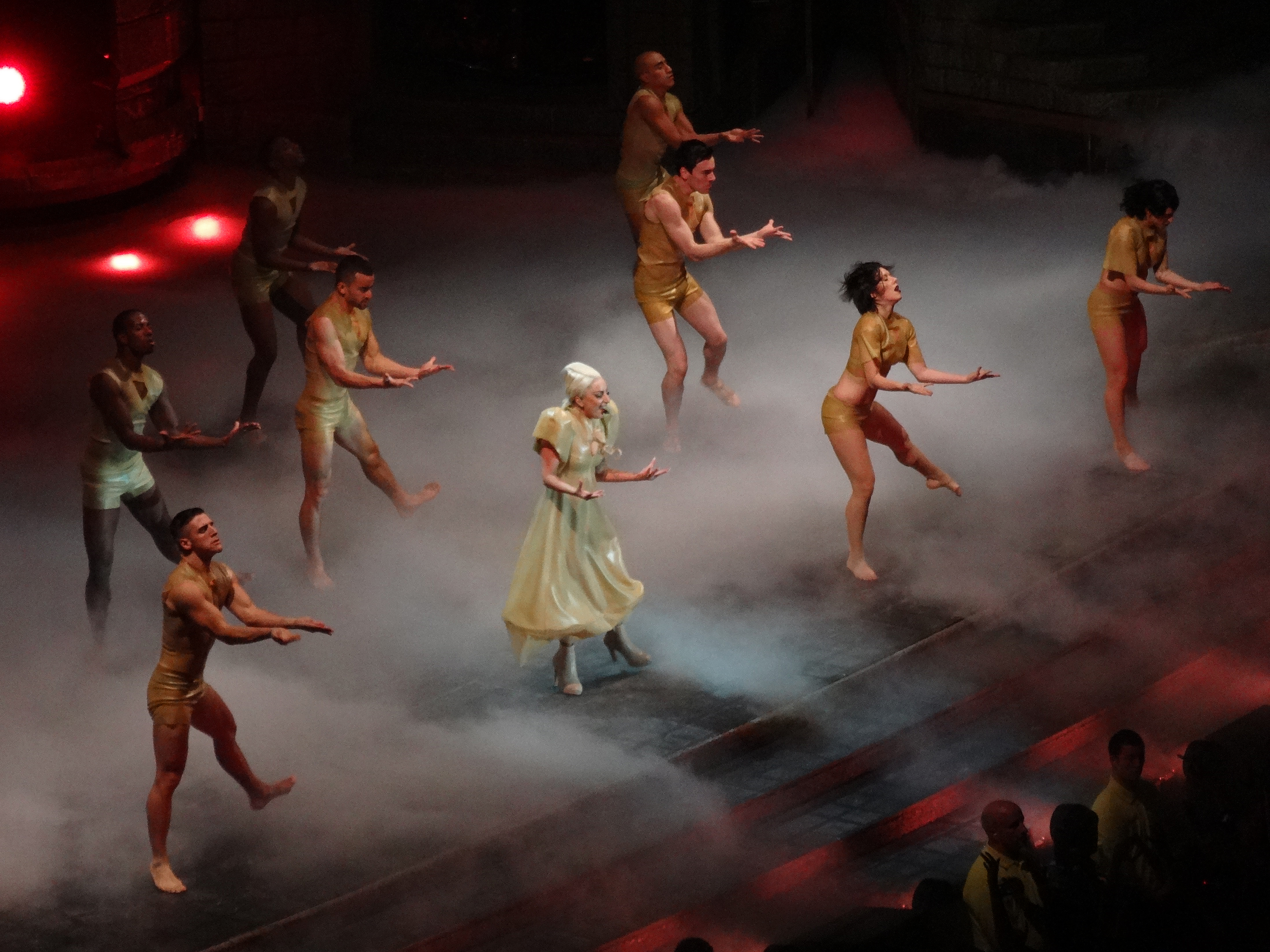 Lady Gaga performing "Born This Way" on The Born This Way Ball Tour.